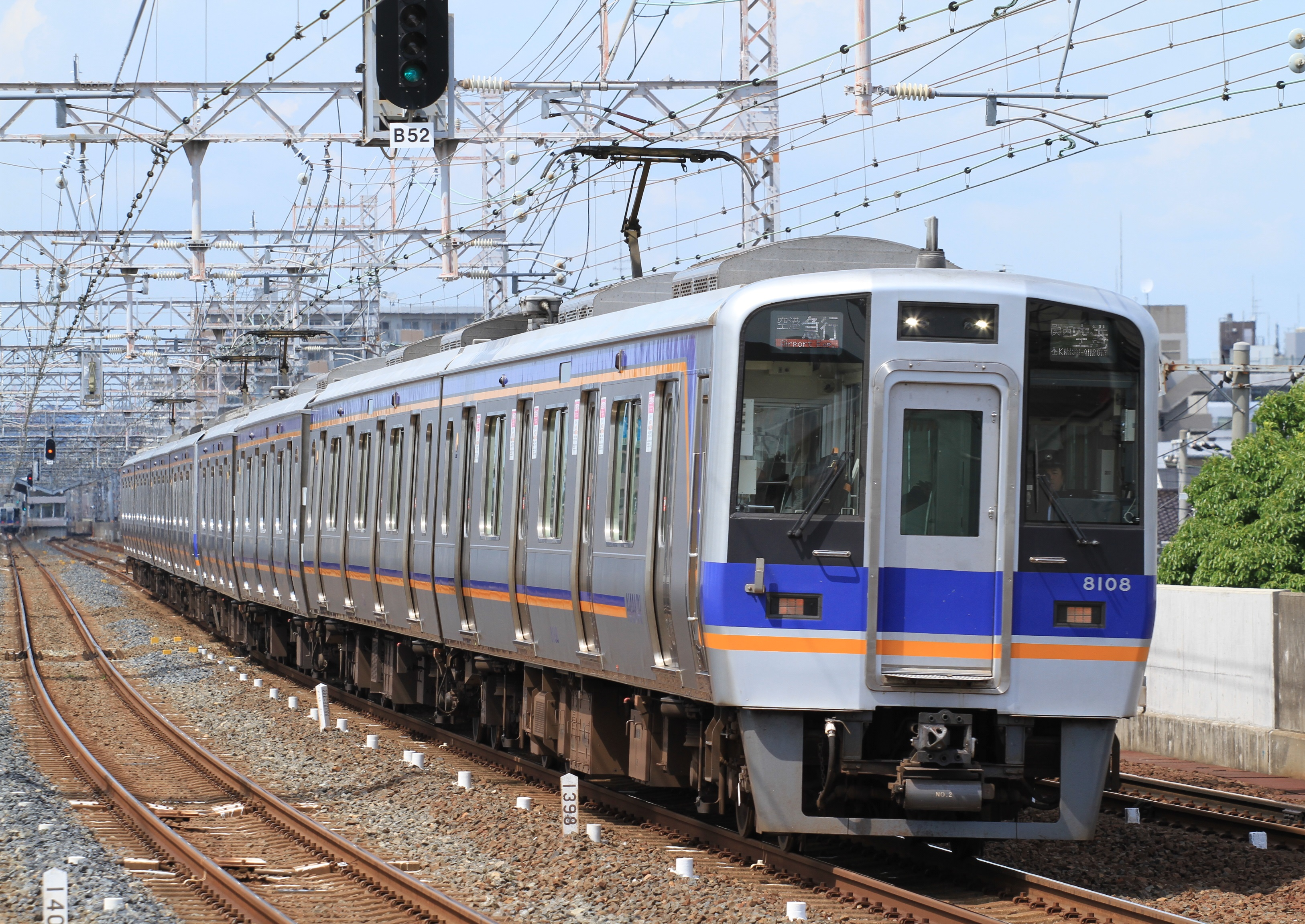 Nankai Electric Railway 8000 series EMU set 8008 approaching Kohama Station